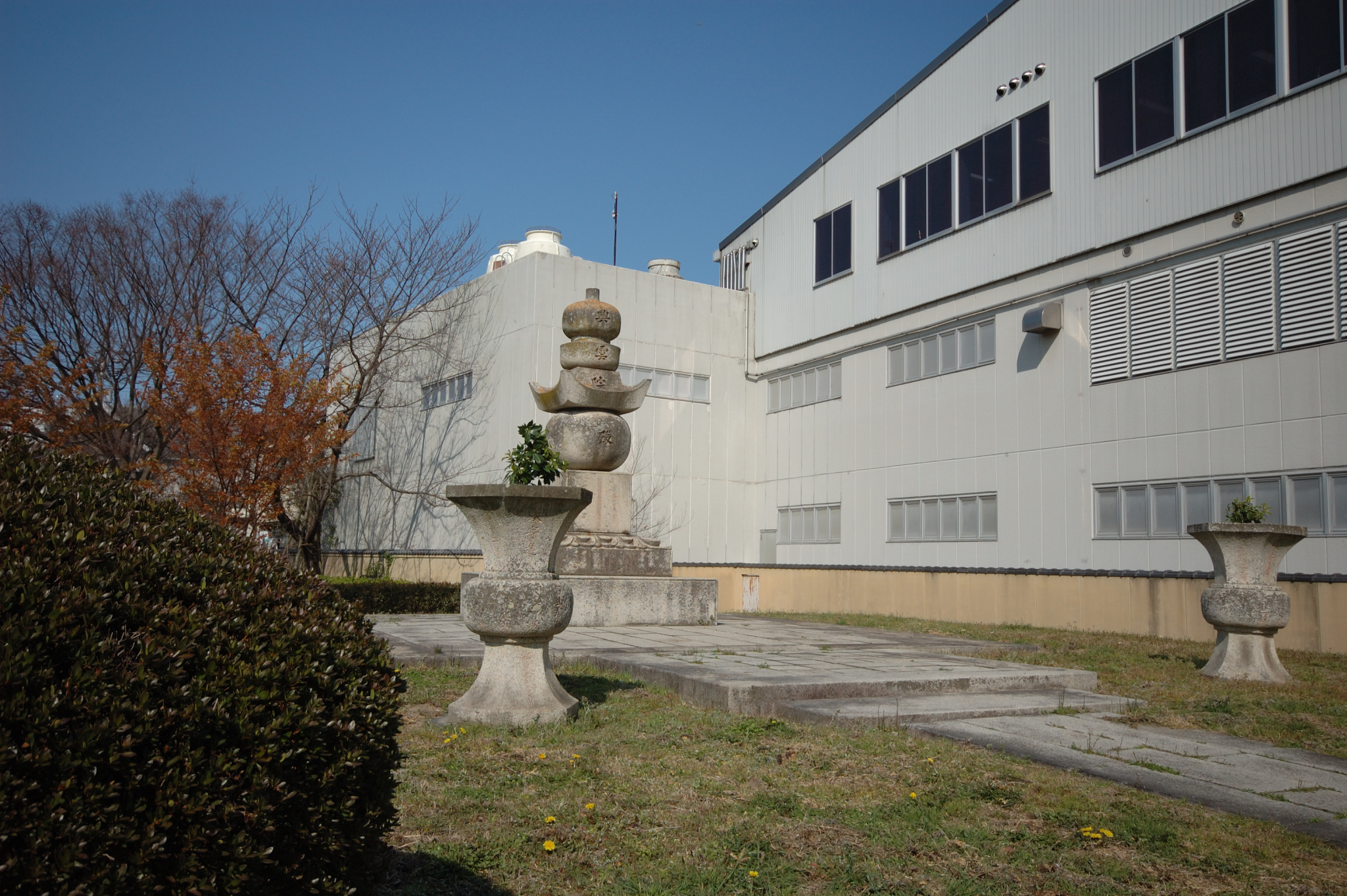 grave of Hachisuka Yoshihiro(the ninth feudal lord)